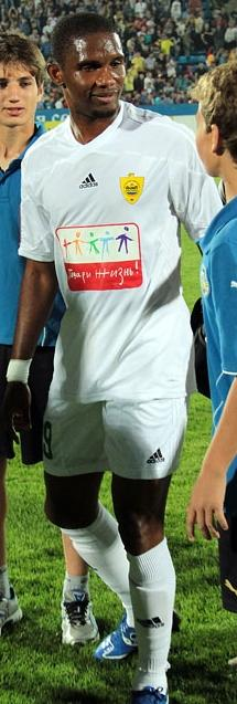 Samuel Eto'o in his debut for FC Anzhi Makhachkala.